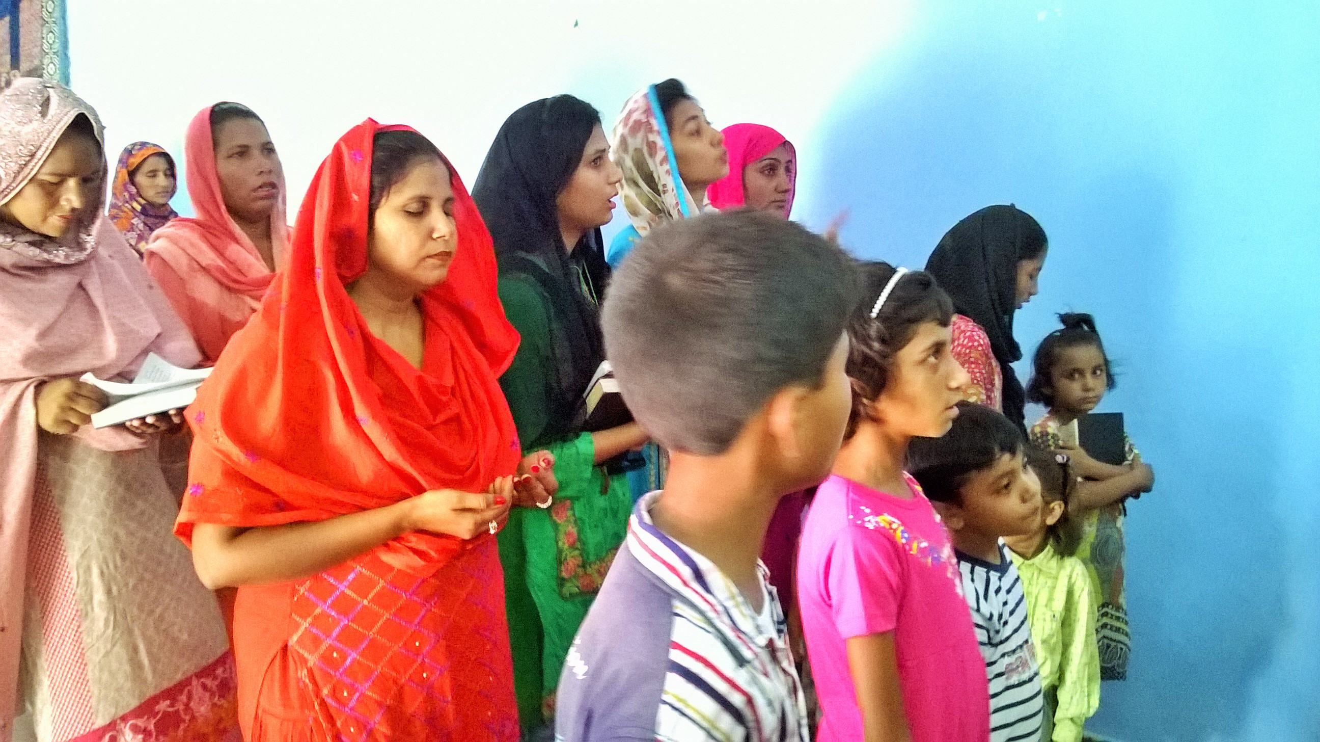 Christchurch of Pakistan